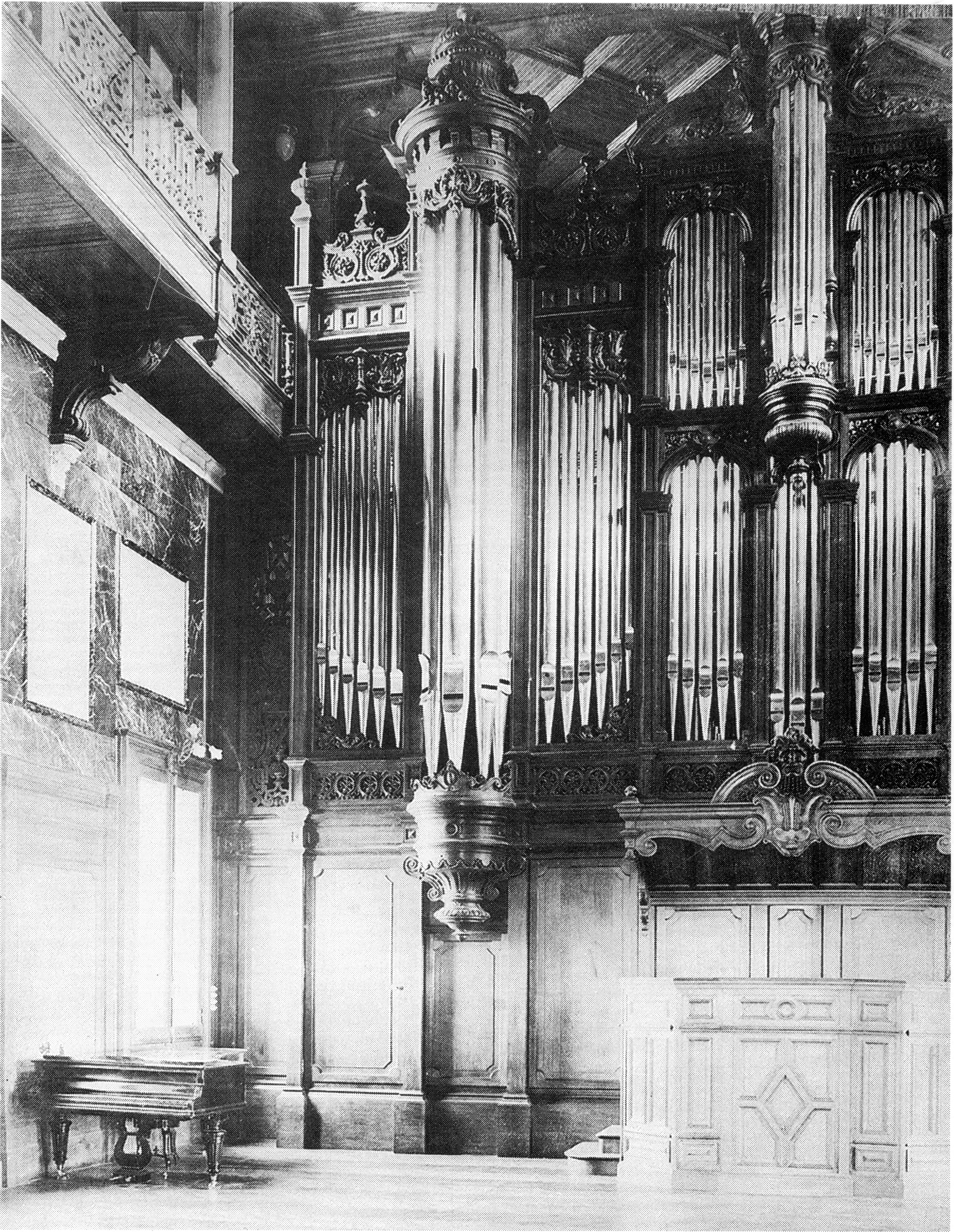 Ilbarritz Castle - Organ - Cavaillé-Coll 1898: Orgue du baron Albert de l'Espée dans son château d'Ilbarritz à Bidart (Pyrénées-Atlantiques).